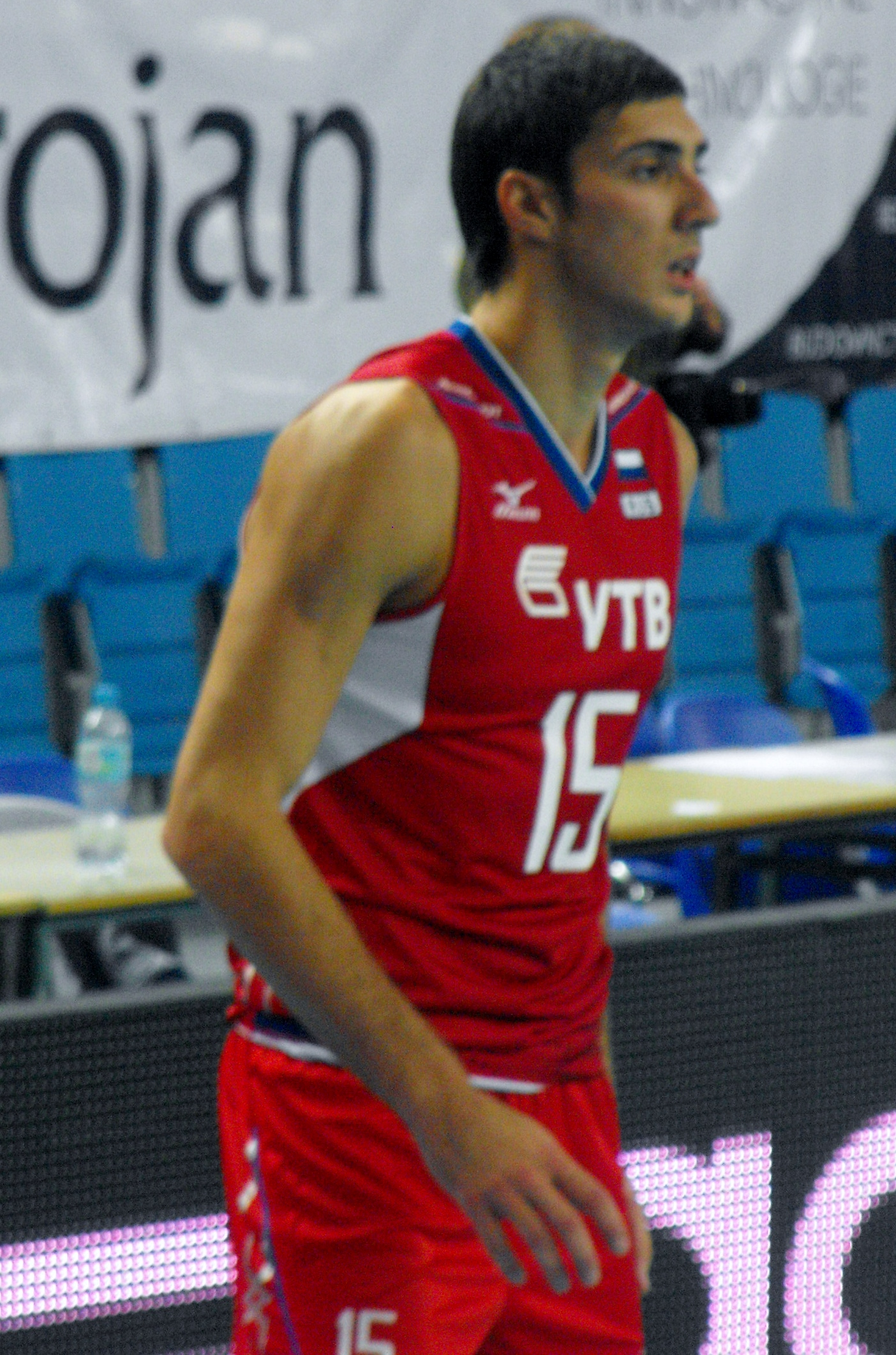 Dmitriy Ilinykh - Memoriał Huberta Jerzego Wagnera 2013, Płock